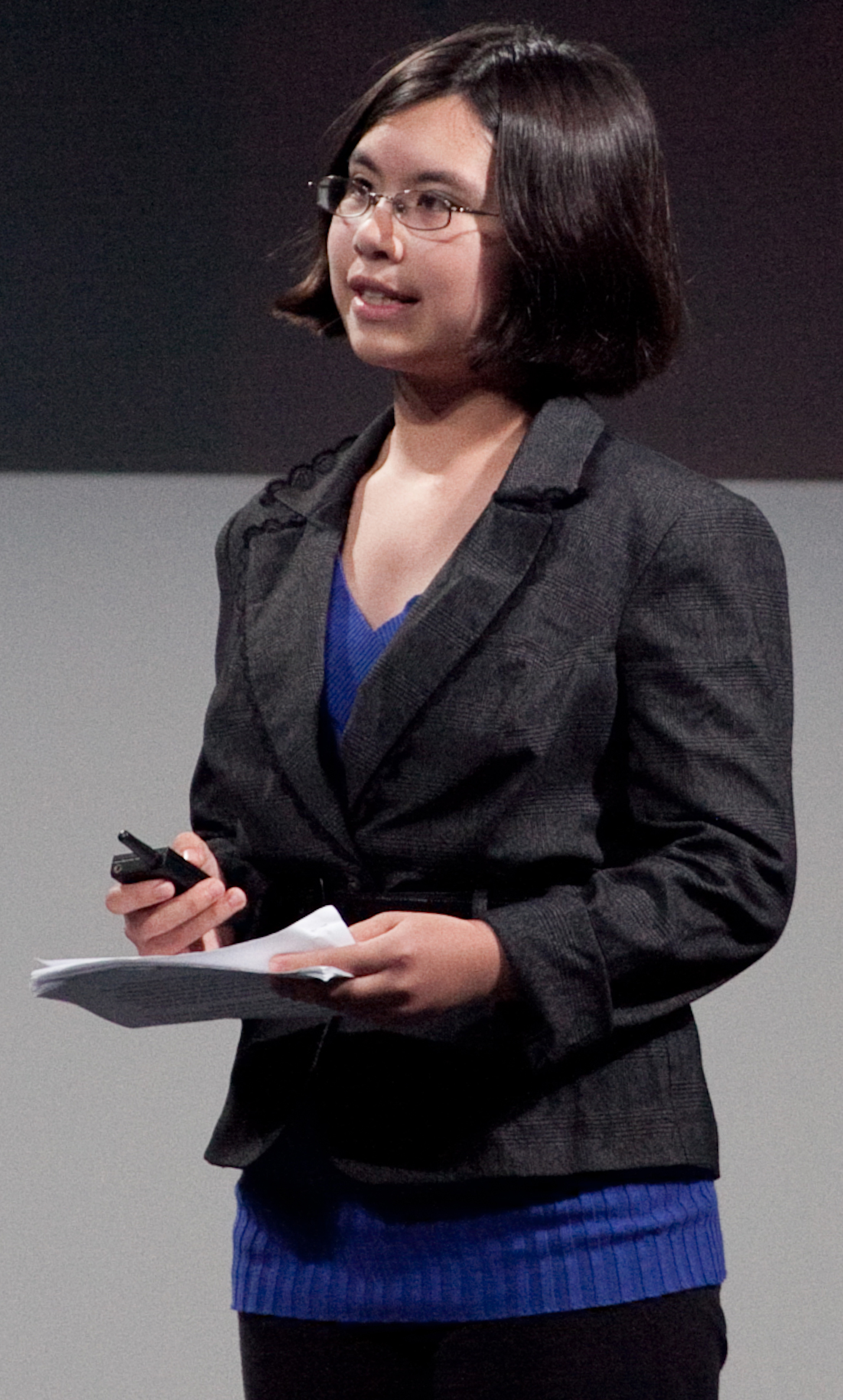 Adora Svitak speaking at The UP Experience 2010 in October 2010.